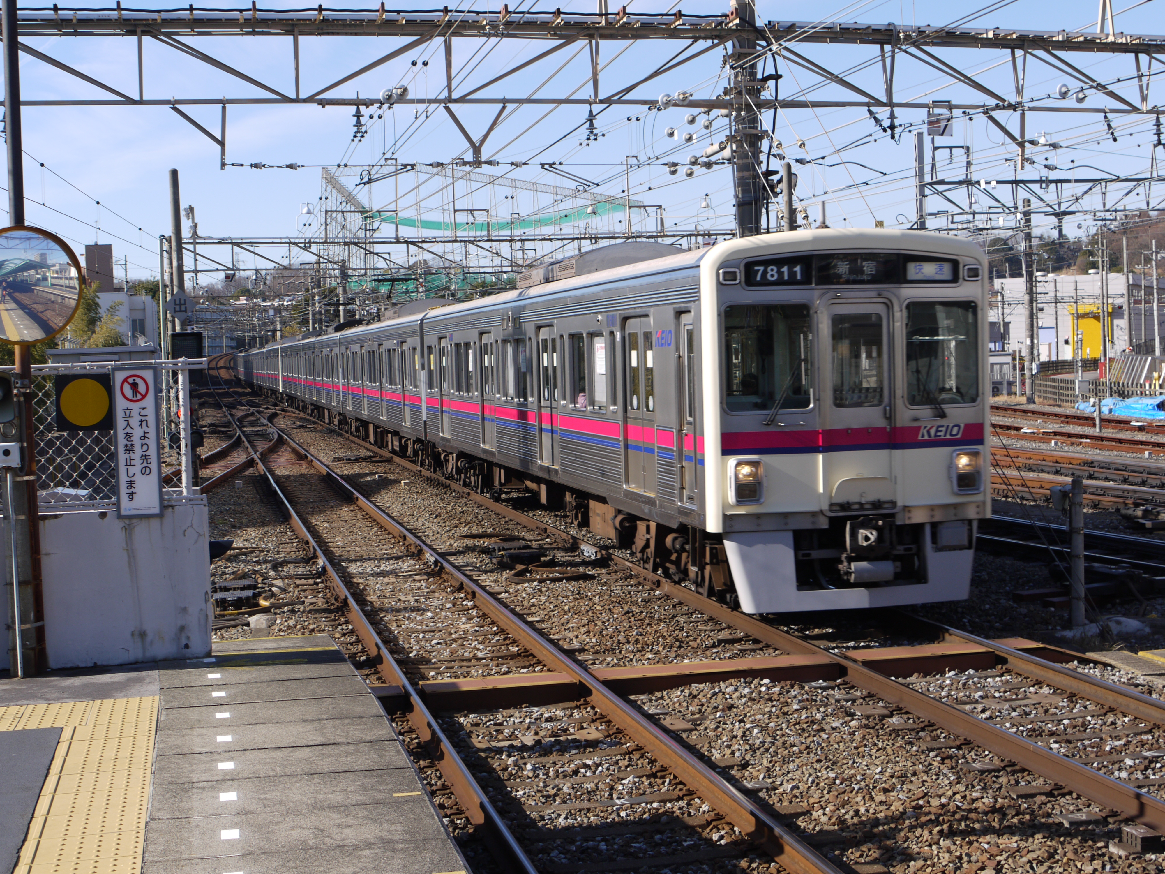 Keio 7811 at Wakabadai